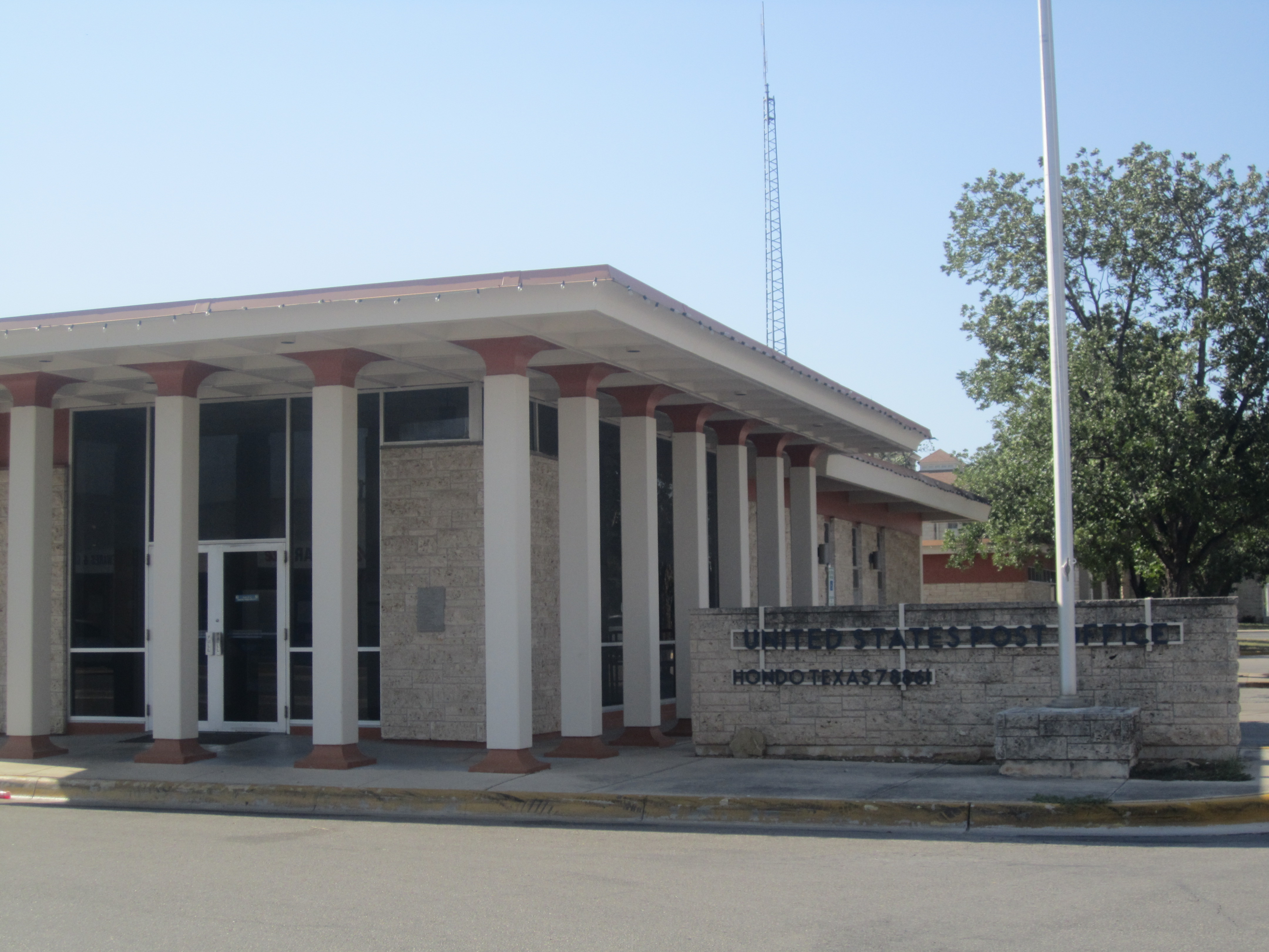 I took photo with Canon camera of post office in Hondo, tX.